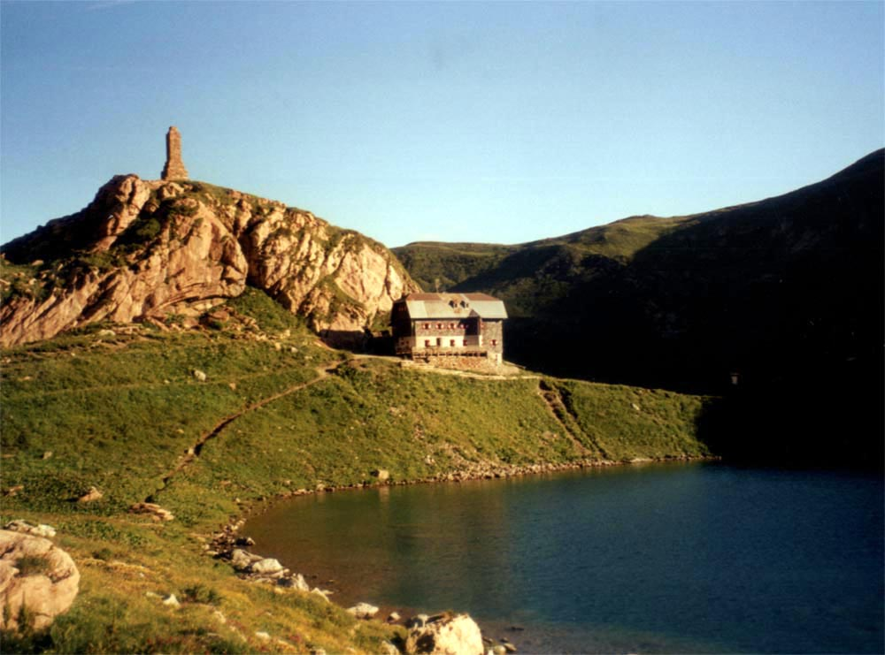 Wolayerseehütte (former Eduard-Pichl-Hütte) situated at the Wolayer Lake seen from West in the Carnic Alps / Carinthia / Austria / EU.